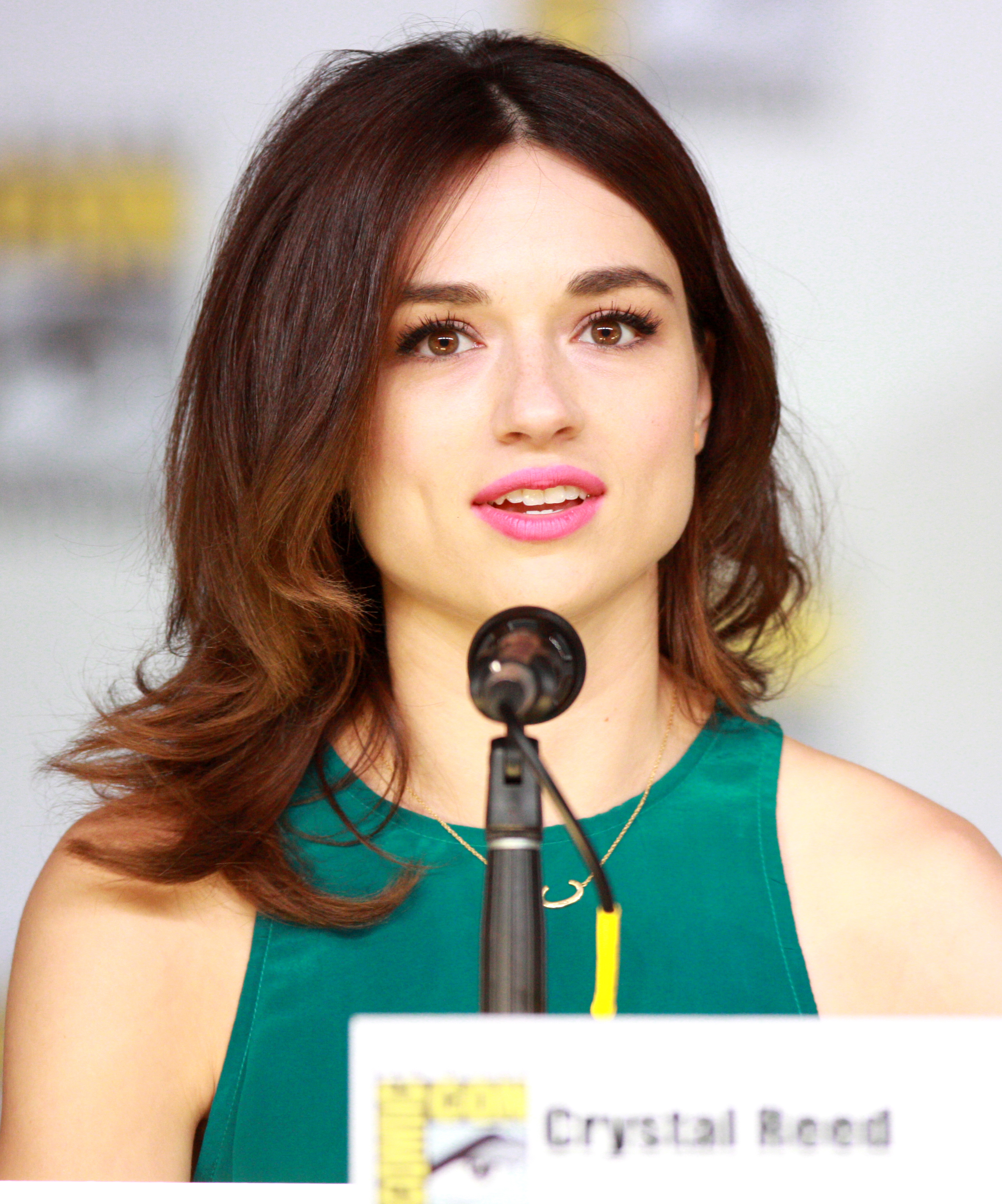 Crystal Reed at the 2013 San Diego Comic Con International in San Diego, California.